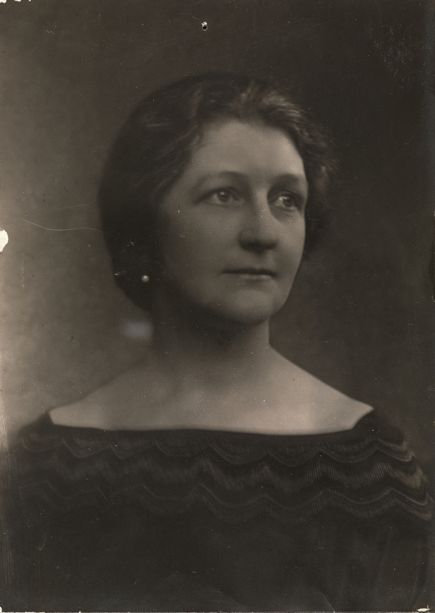 Depicted person: Aagot Nissen – Norwegian stage actor